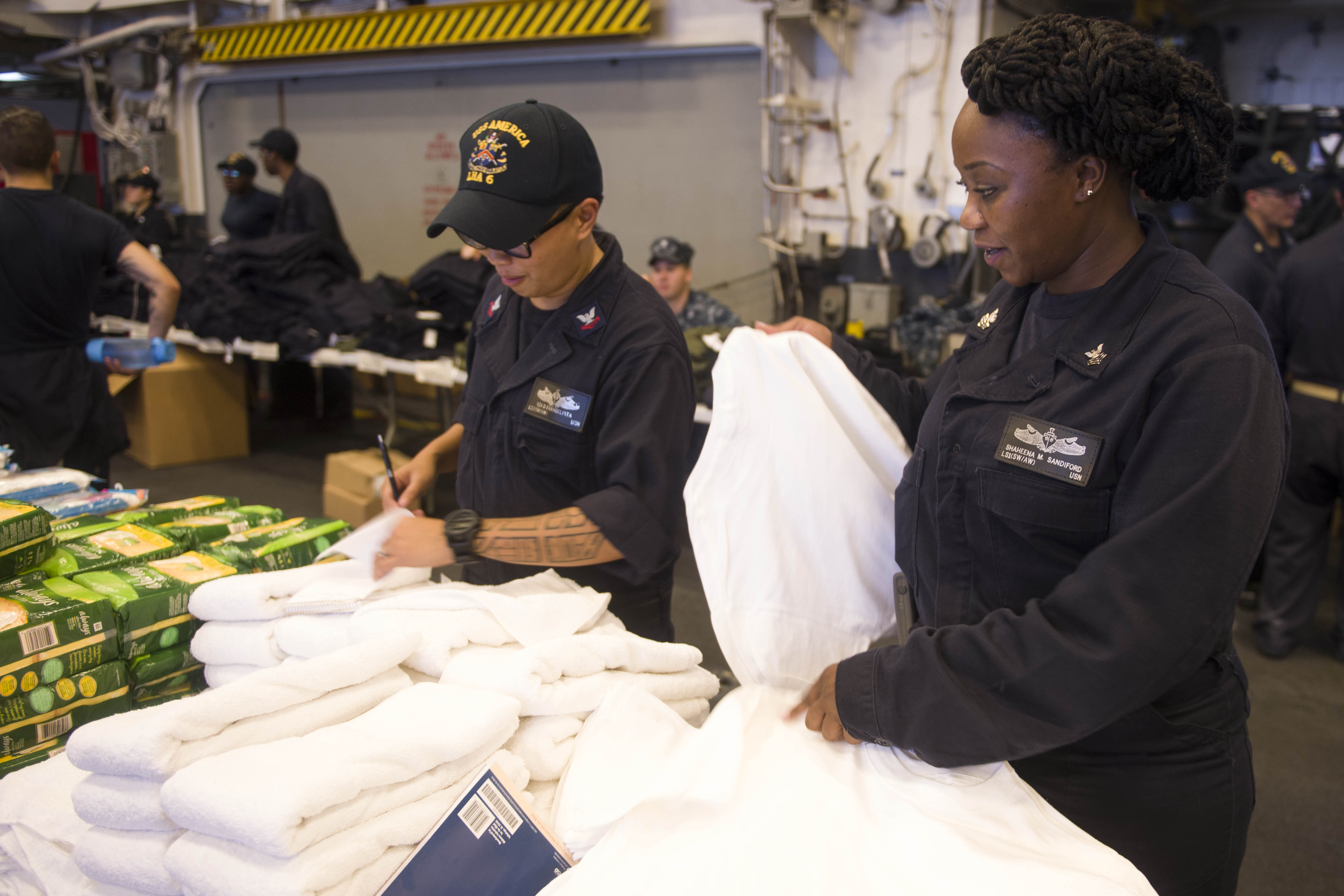 170821-N-UK248-017 SINGAPORE (Aug. 21, 2017) Sailors assigned to the amphibious assault ship USS America (LHA 6) supply department, organize towels in the ship’s hangar bay. America Sailors are providing support to the crew of the Arleigh Burke-class guided-missile destroyer USS John S. McCain (DDG 56) following a collision in the Malacca Straits. America, part of the America Amphibious Ready Group, with embarked 15th Marine Expeditionary Unit, is operating in the Indo-Asia Pacific region to strengthen partnerships and serve as a ready-response force for any type of contingency. (U.S. Navy photo by Mass Communication Specialist 2nd Class Kristina Young/Released)